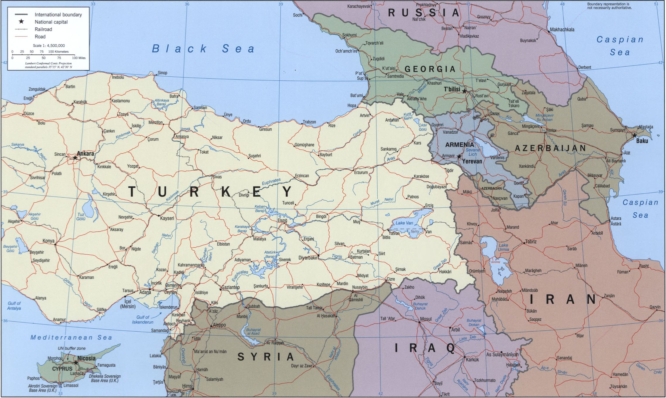 Eastern Turkey and vicinity. Also covers extensive adjacent regions including Cyprus, Georgia, Armenia, and Azerbaijan. Also issued with shaded relief. Available also through the Library of Congress Web site as a raster image. Includes note.